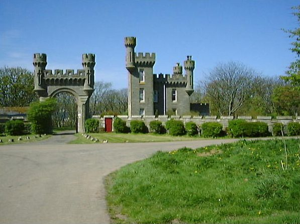 The Gatehouse, Thurso Castle, Caithness. The Castle Gate house is no longer lived in but is very picturesque. The Castle is owned by Lord Thurso's family.